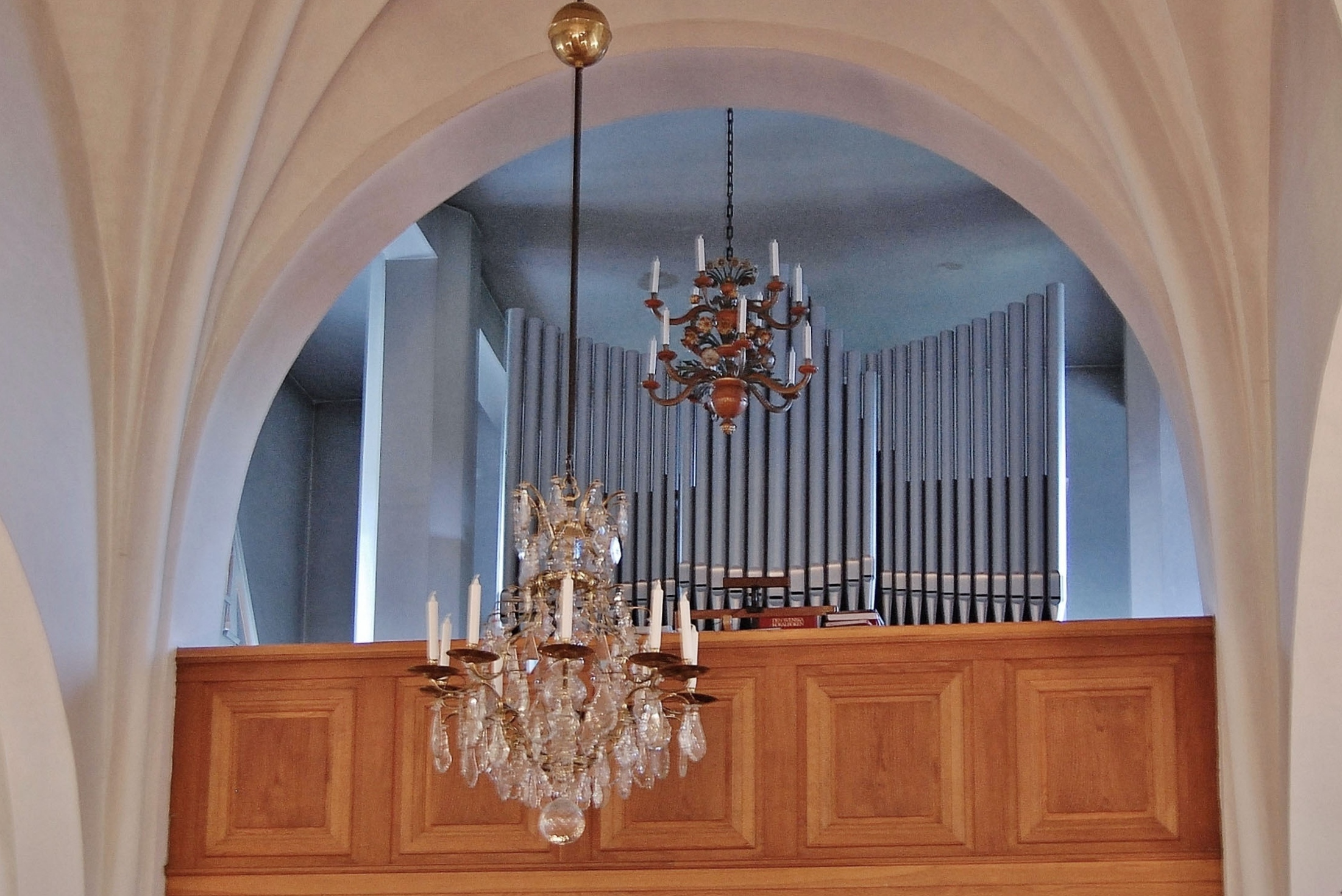 Sillhövda Church.Organ.